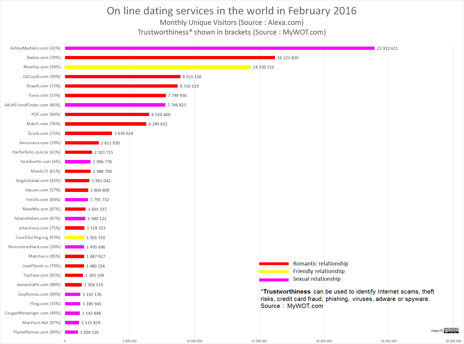 On line dating services in the world in February 2016 Monthly Unique Visitors (Source : ) Trustworthiness* shown in brackets (Source : )